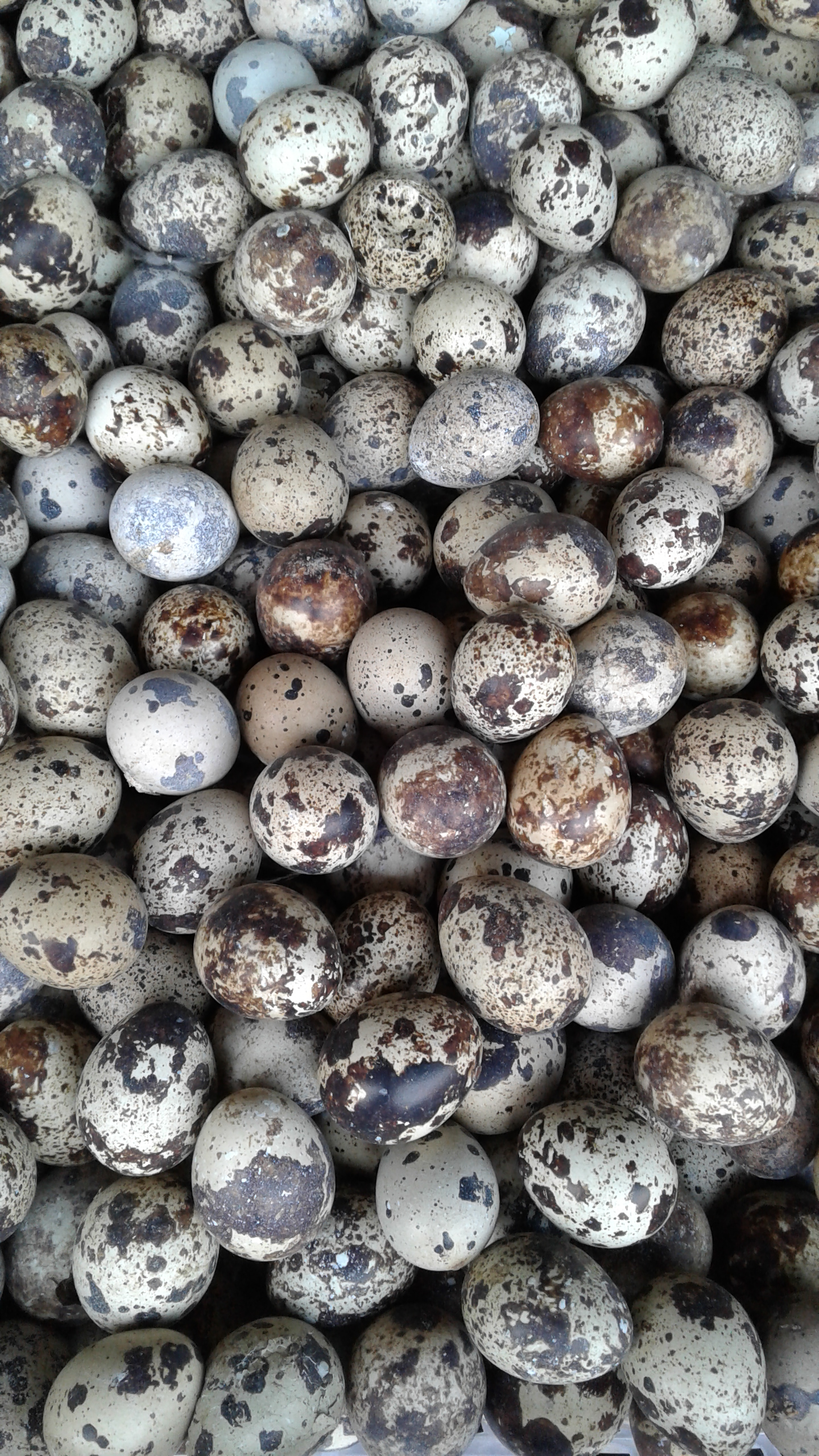 Quail eggs, Bangladesh